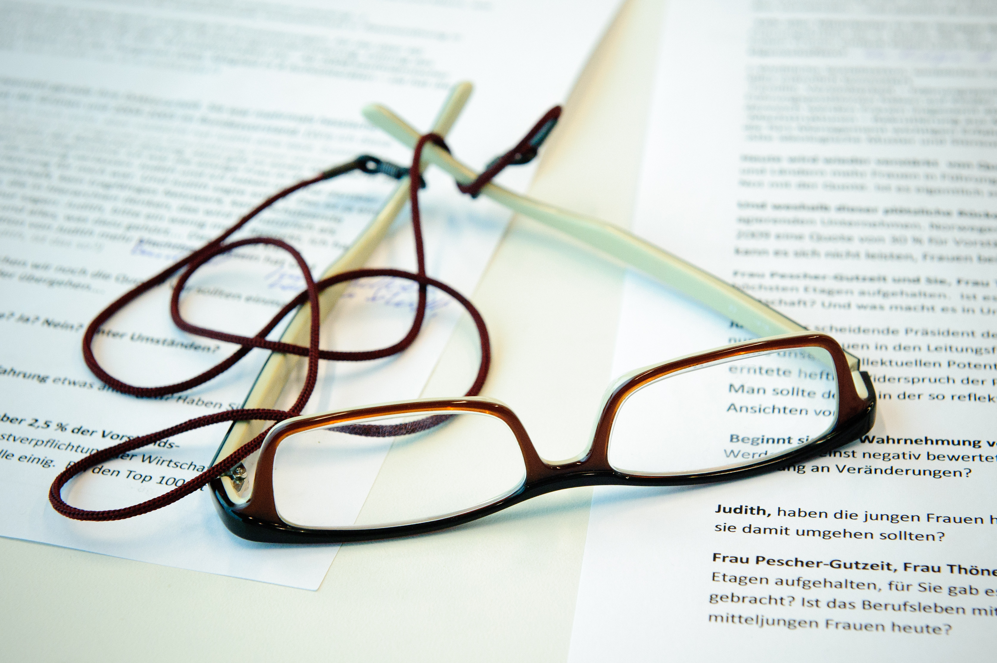 Foto: Stephan Röhl